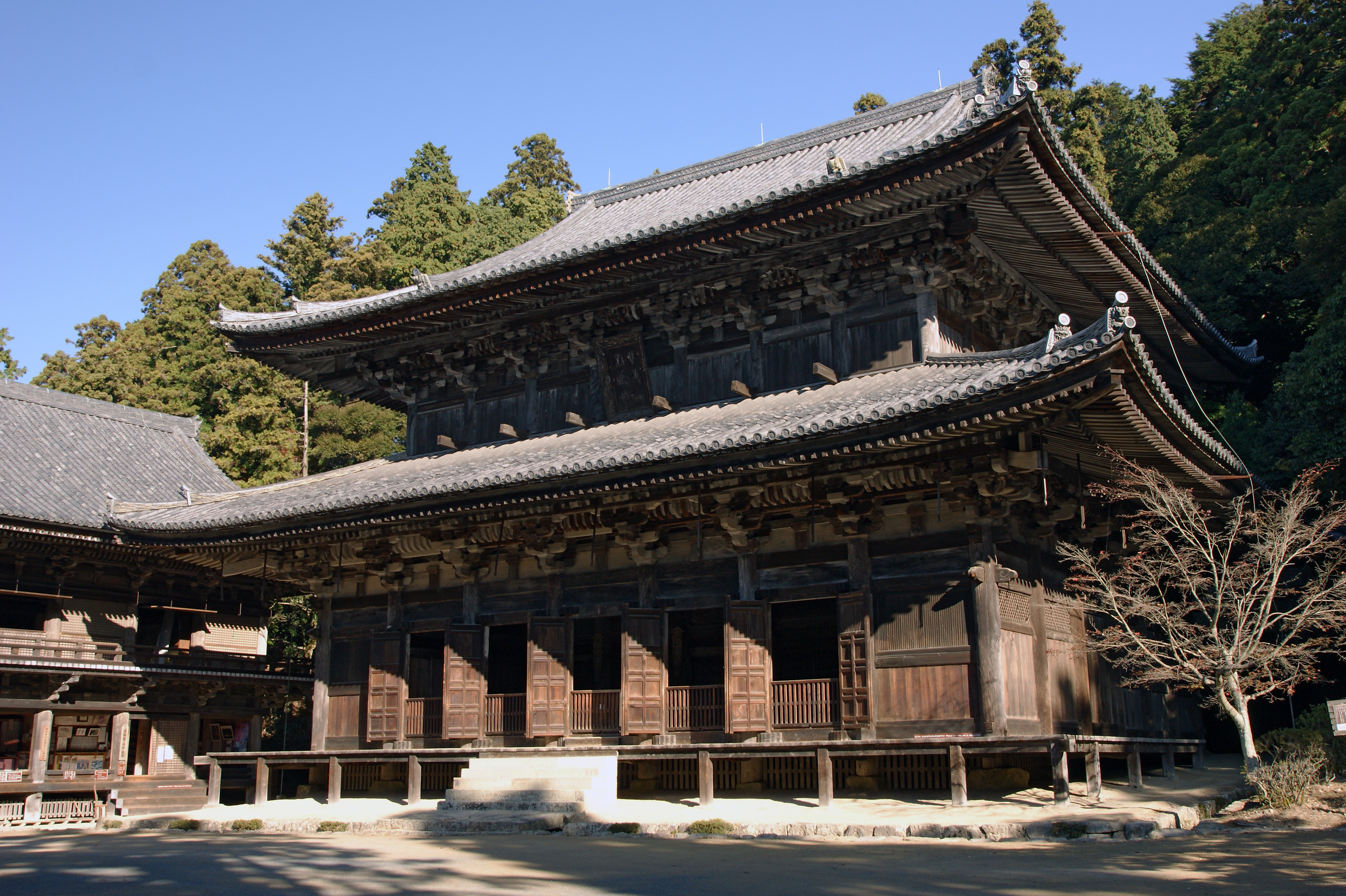 Engyoji, Himeji, Hyogo prefecture, Japan